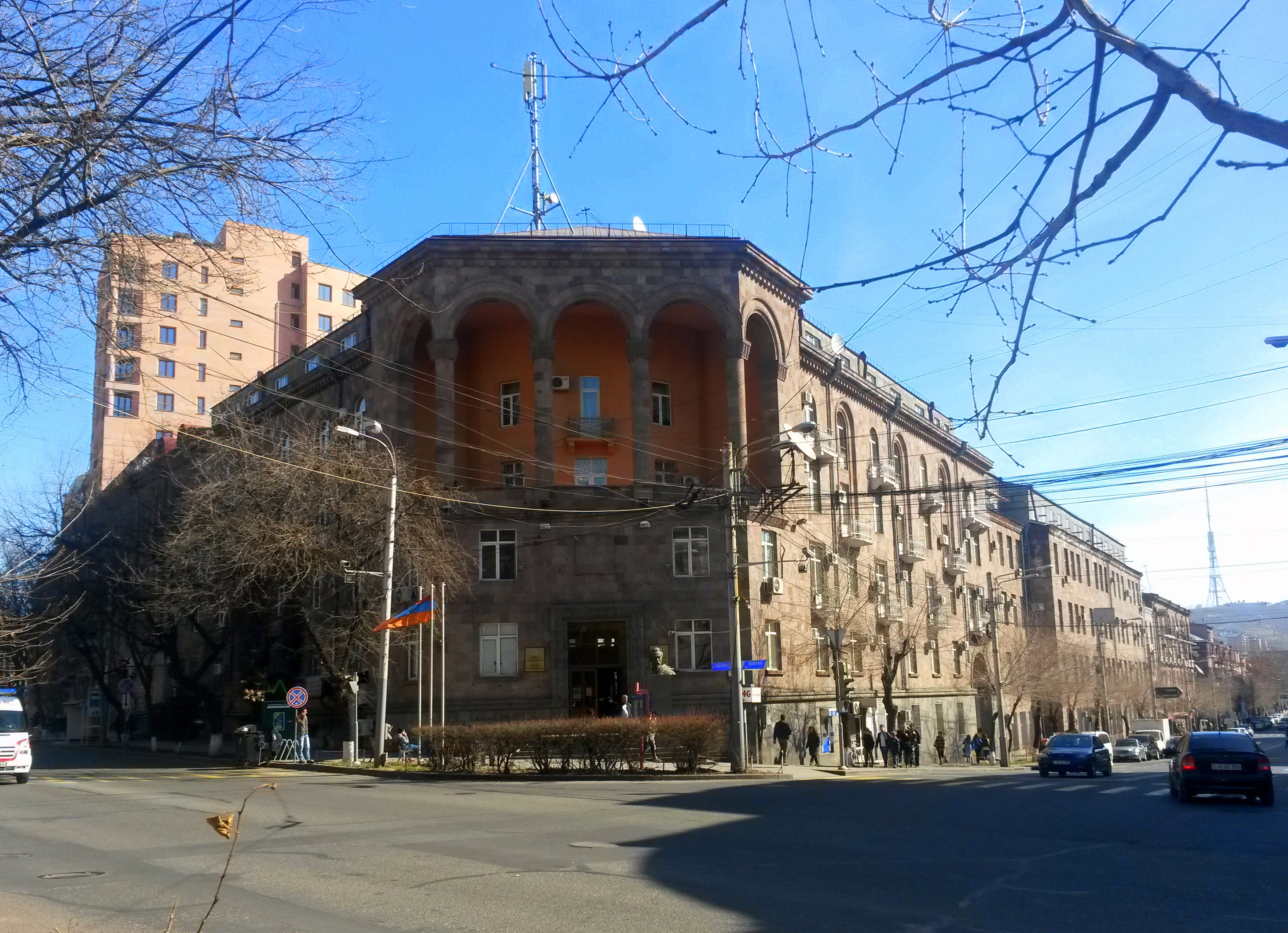 Yerevan State Linguistic University